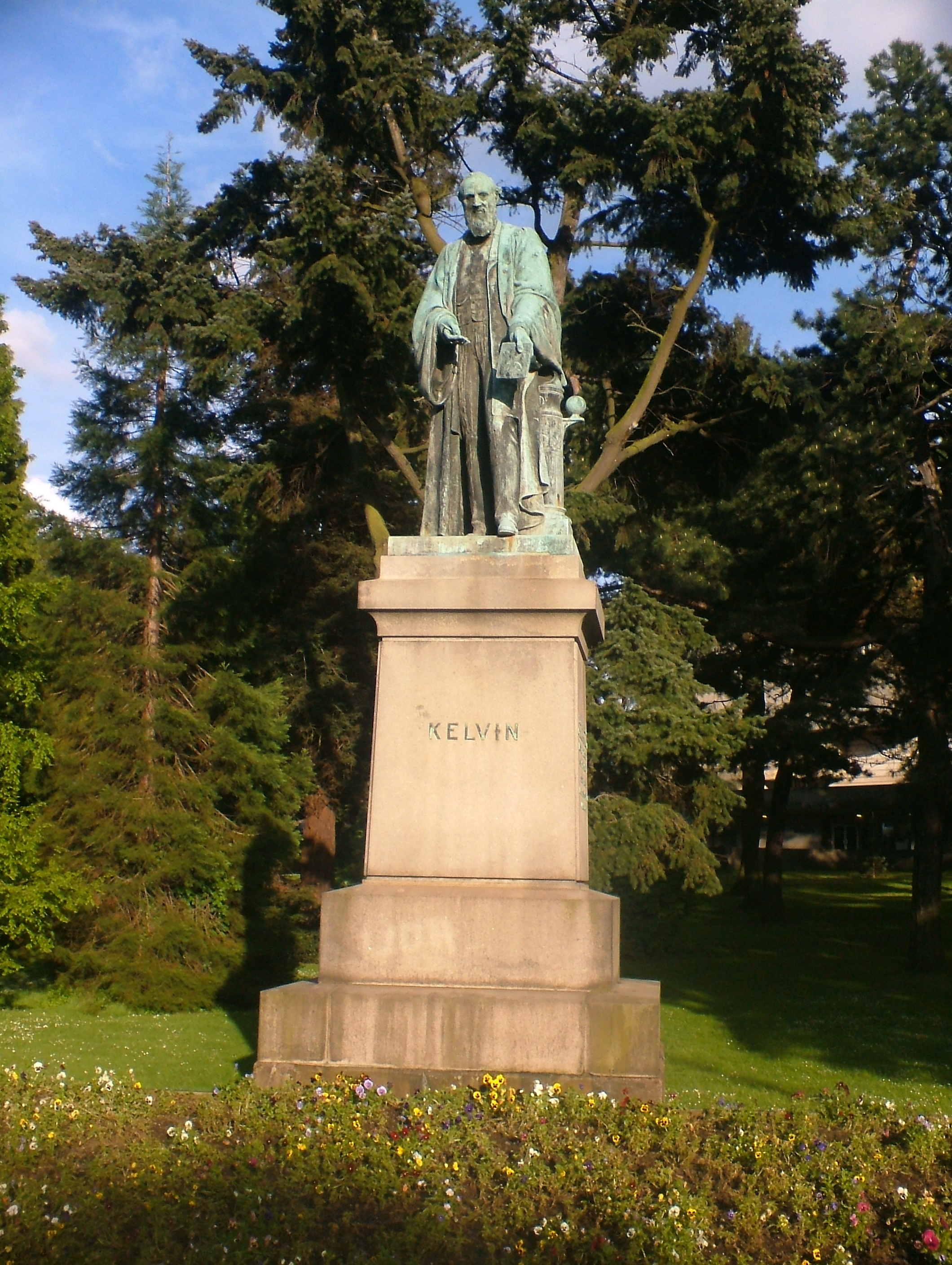 Lord Kelvin's statue in Botanic park, Belfast